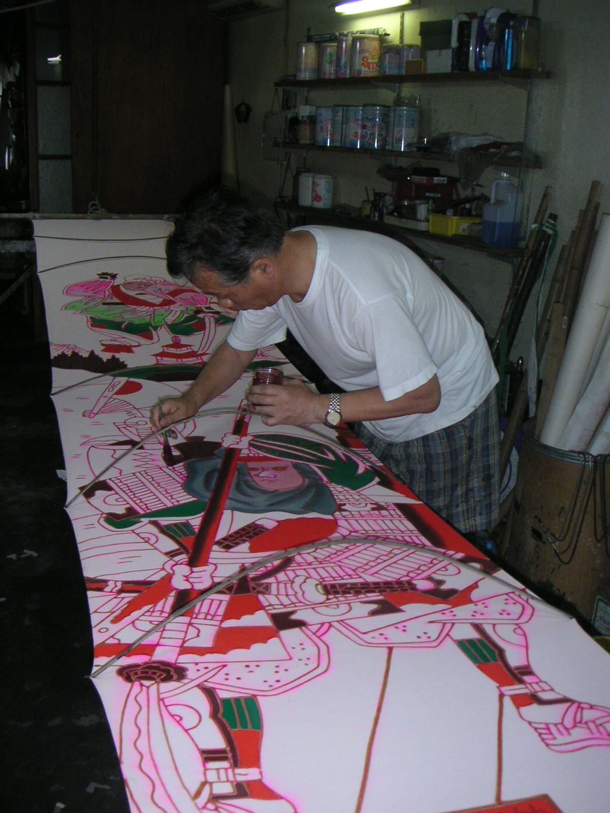 筒描き手染め武者絵のぼり 牛若丸 Japanese TSUTSUGAKI Worriors Nobori